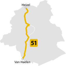 Itinerary of tramway line 51 in Brussels